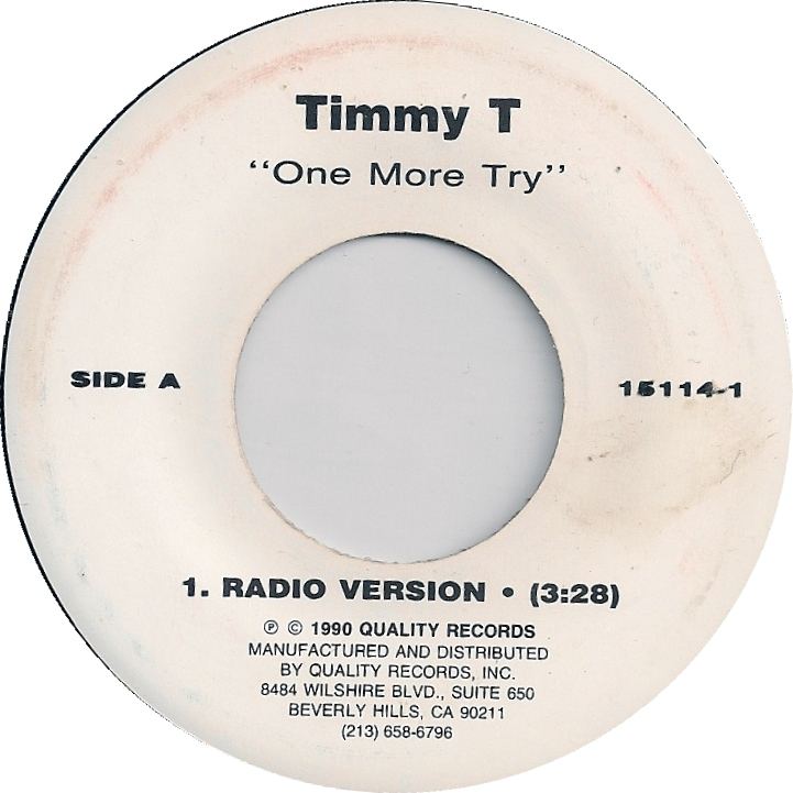 A-side of "One More Try" by Timmy T